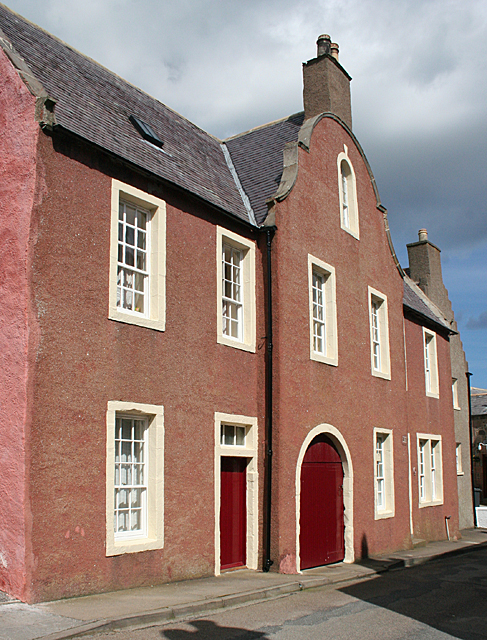 23-27 North High Street